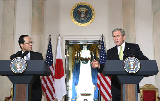 Japanese Prime Minister Yasuo Fukuda and the US President George W. Bush during a joint statement in the Cross Hall of the White House.